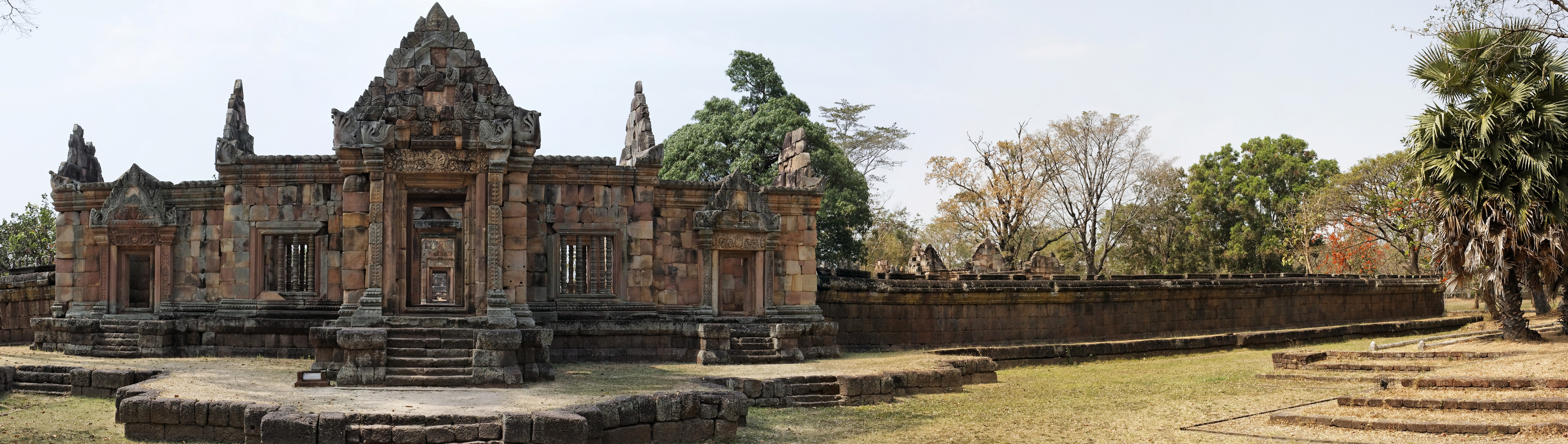 Prasat Muang Tam, Thailand